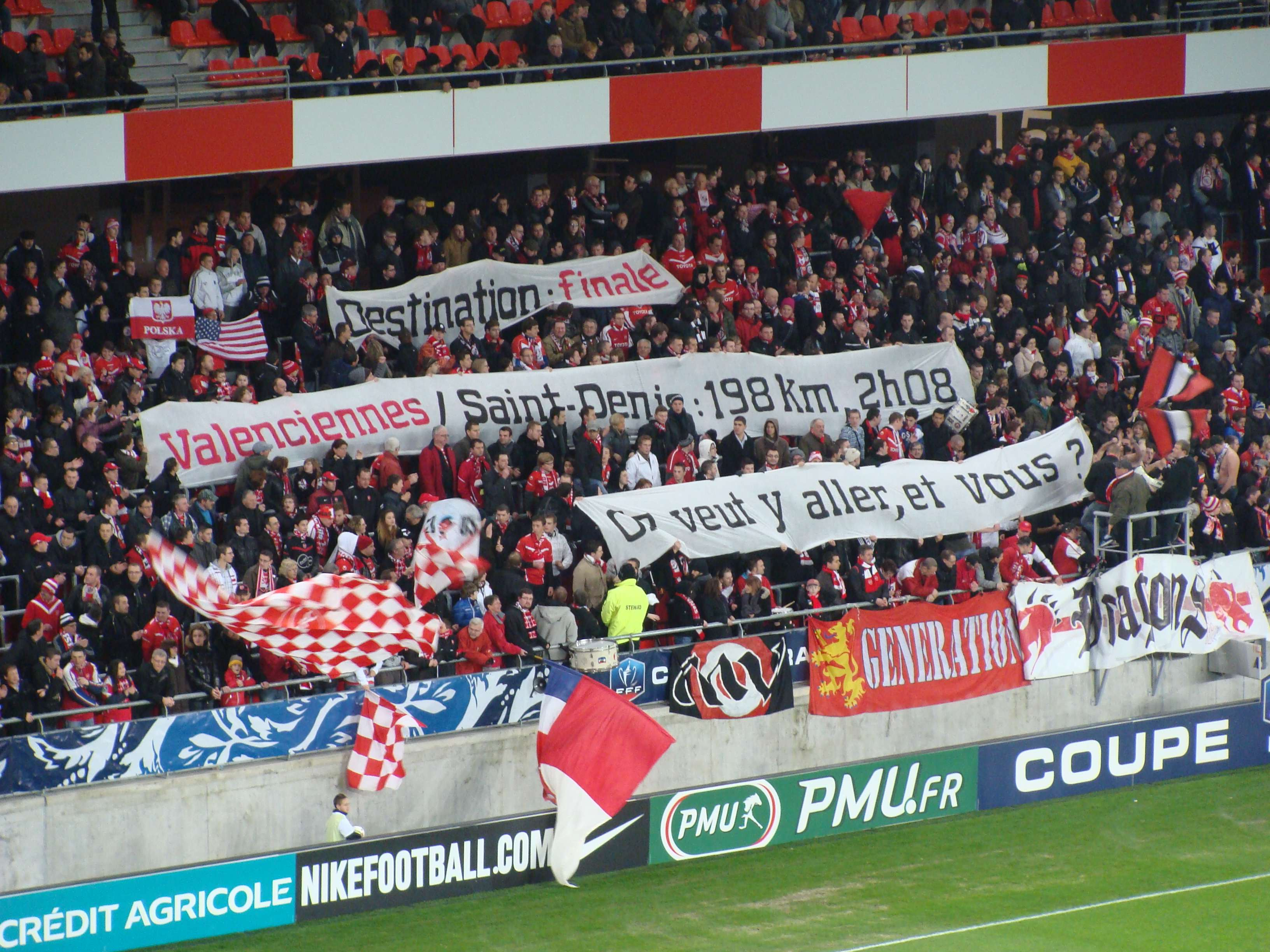 Valenciennes supporters before a Coupe de France match